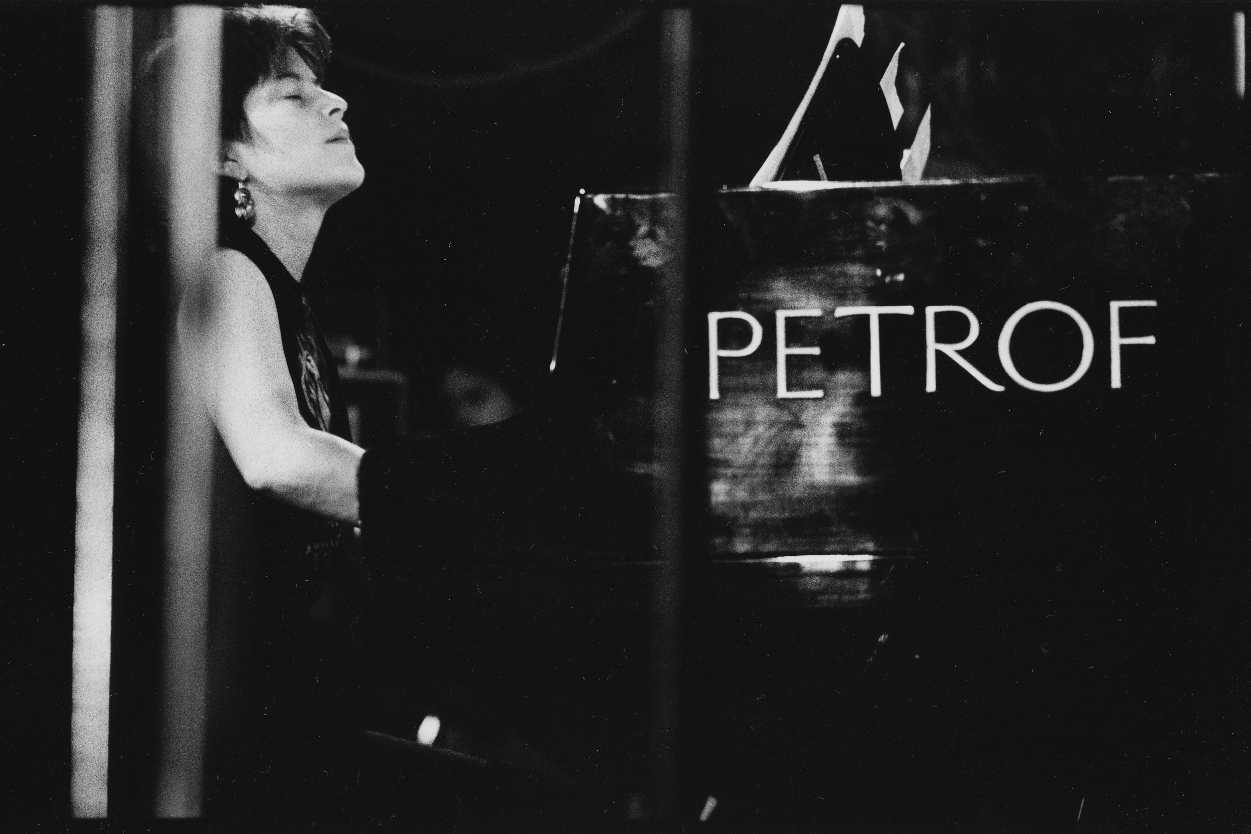 Marilyn Crispell, International Jazz Festival, Prague, Lucerna Music Hall, 20 October 1984